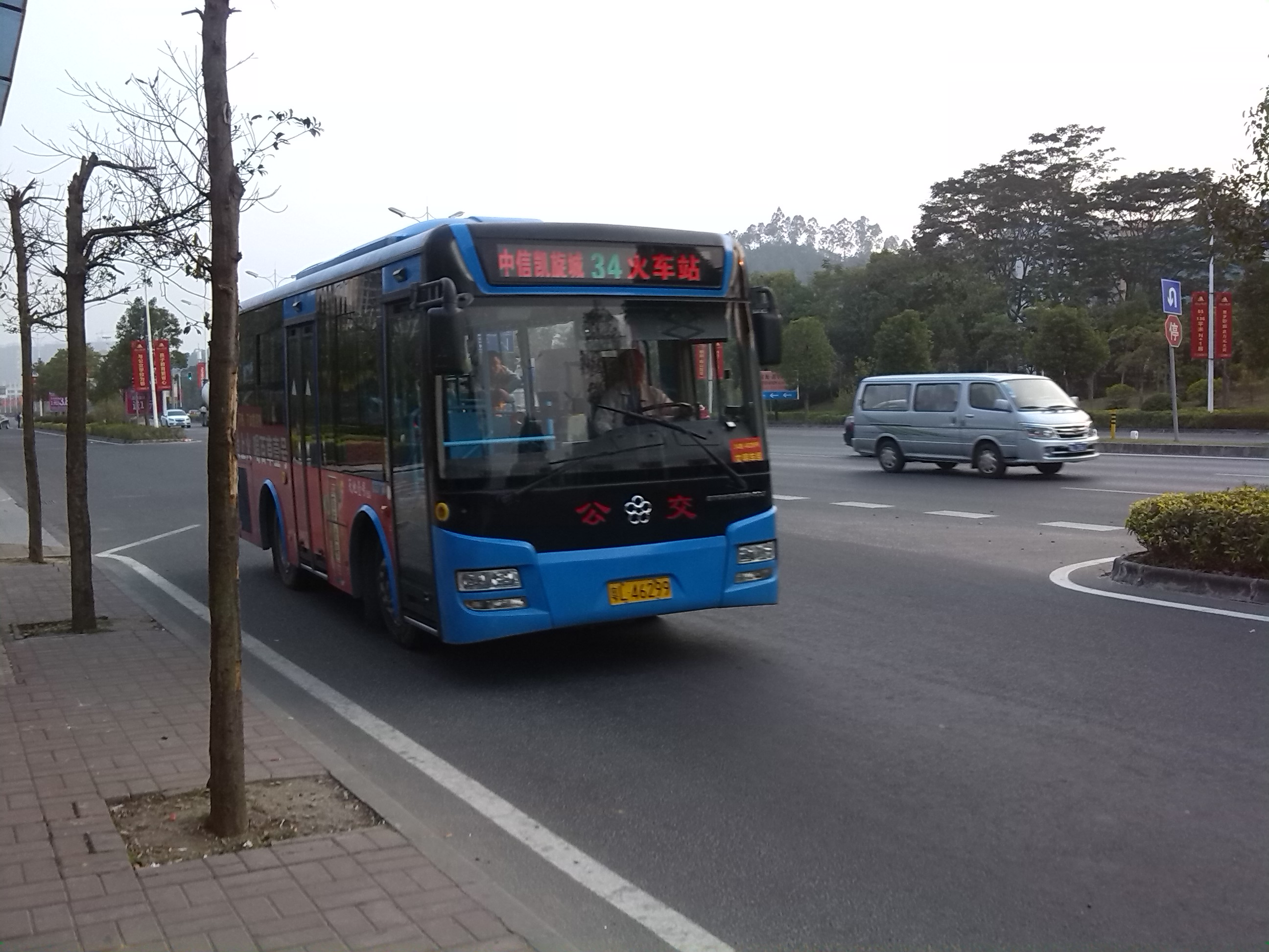 A Granton GTQ6762N4GJ bus which is powered by liquid natural gas and enlisting on Huizhou City Bus Cooperation Route 34. The plate number of this bus is "粤L•46299" . The photo was taken at the bus stop of Huizhou University.